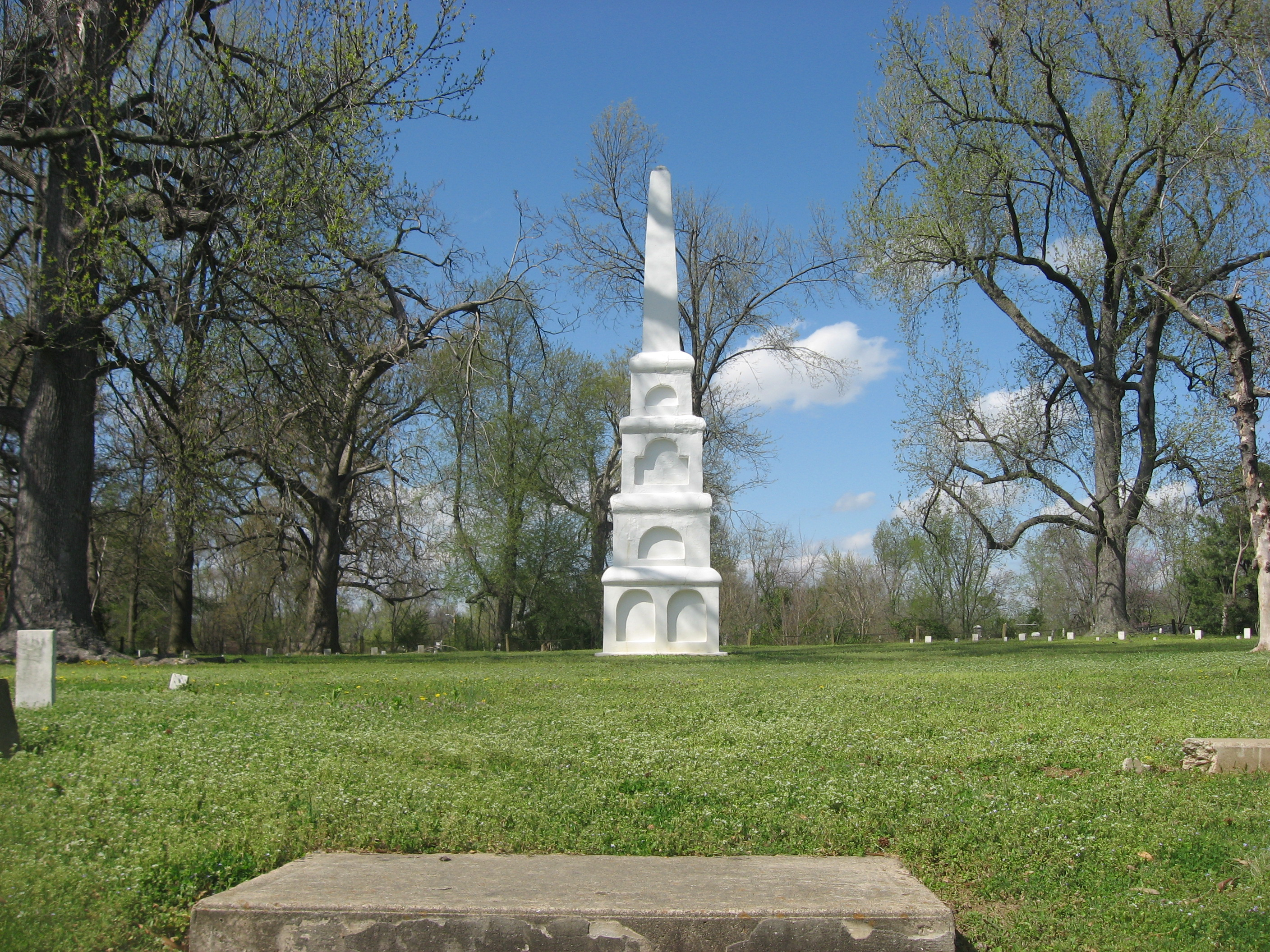 View from the south of the Union City Confederate Monument, located north of the junction of Summer and Edwards Streets in Union City, Tennessee, United States. Placed in 1869, it is listed on the National Register of Historic Places.